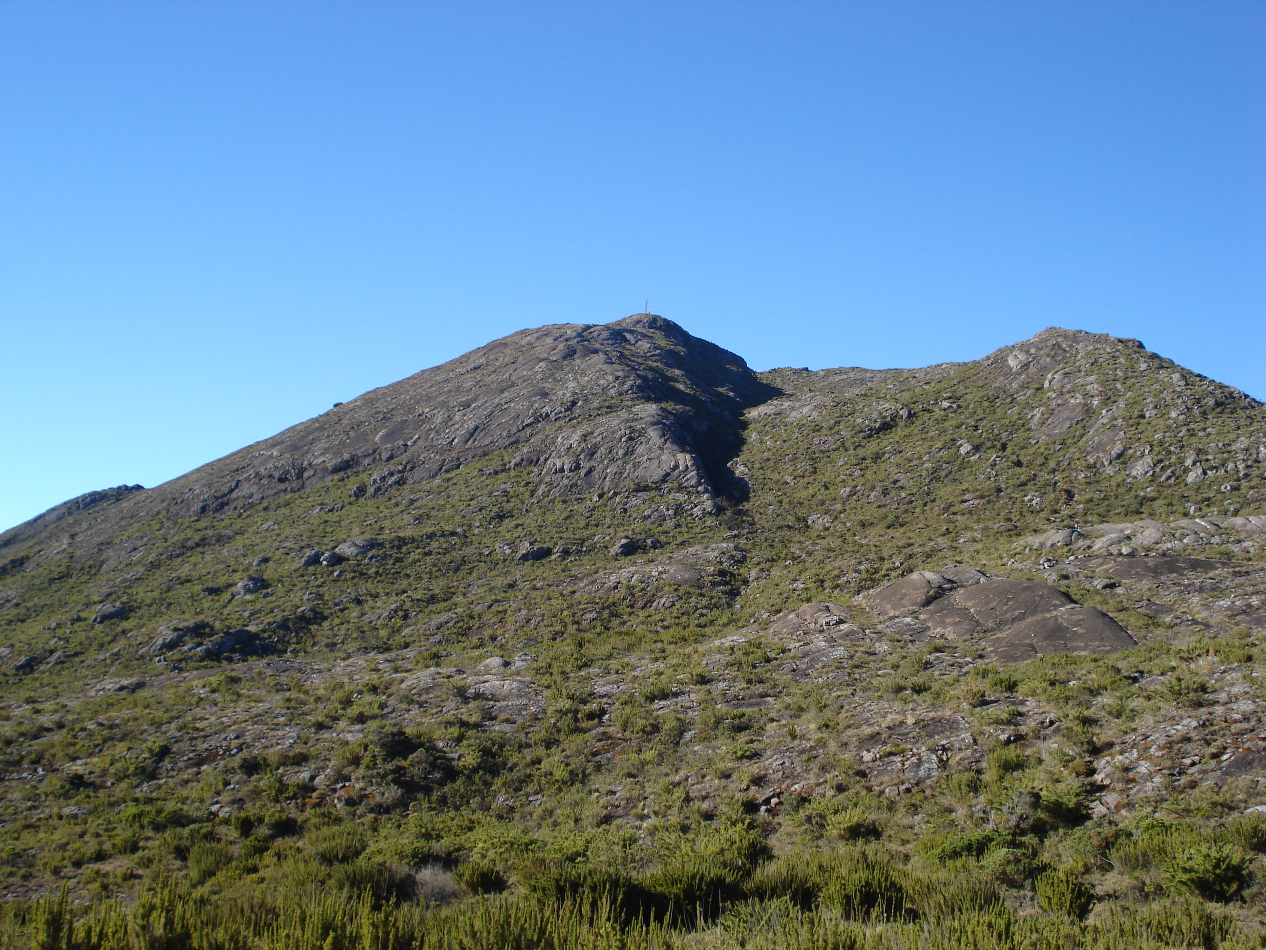 Pico da Bandeira located in Parque Nacional do Caparaó, currency of the states of Minas Gerais and Espirito Santo - Brazil. Photo made in 2008.